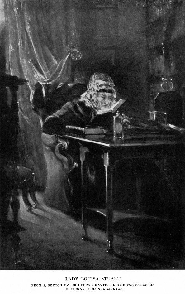 Sketch in oils of Lady Louisa Stuart (1757-1851)